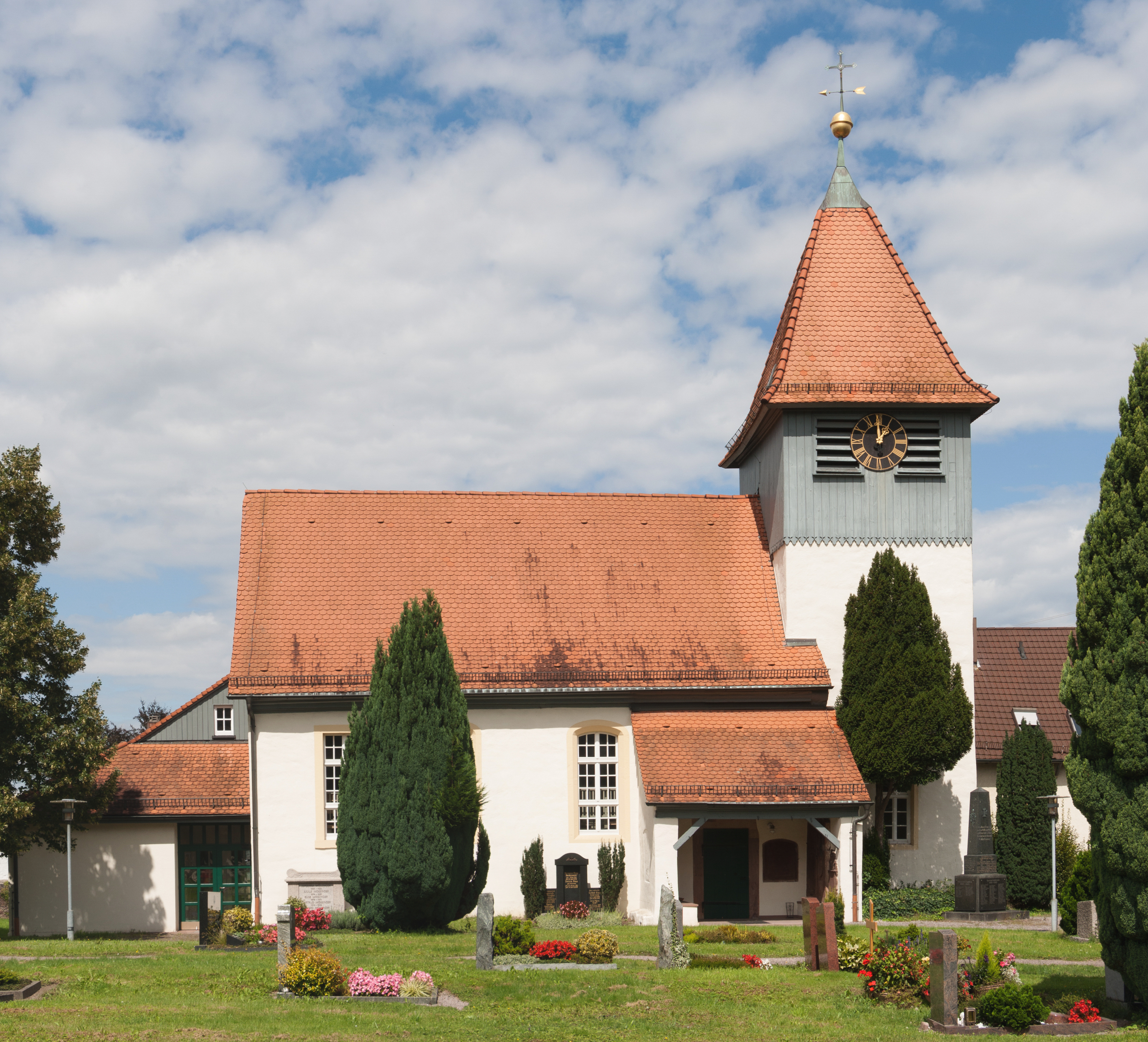 The Jacob church in Karlsruhe-Wolfartsweier